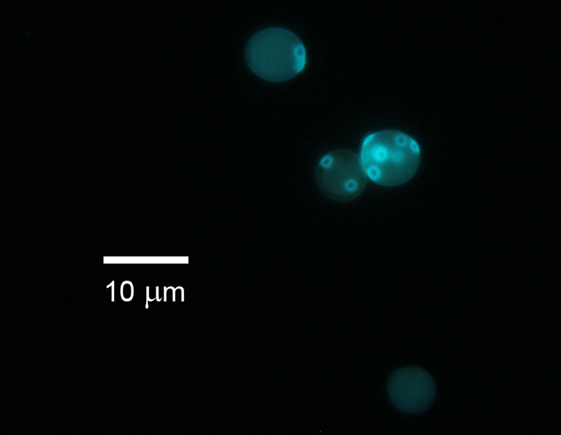 Fluorescent microscopy, Calcofluor white staining, Yeast